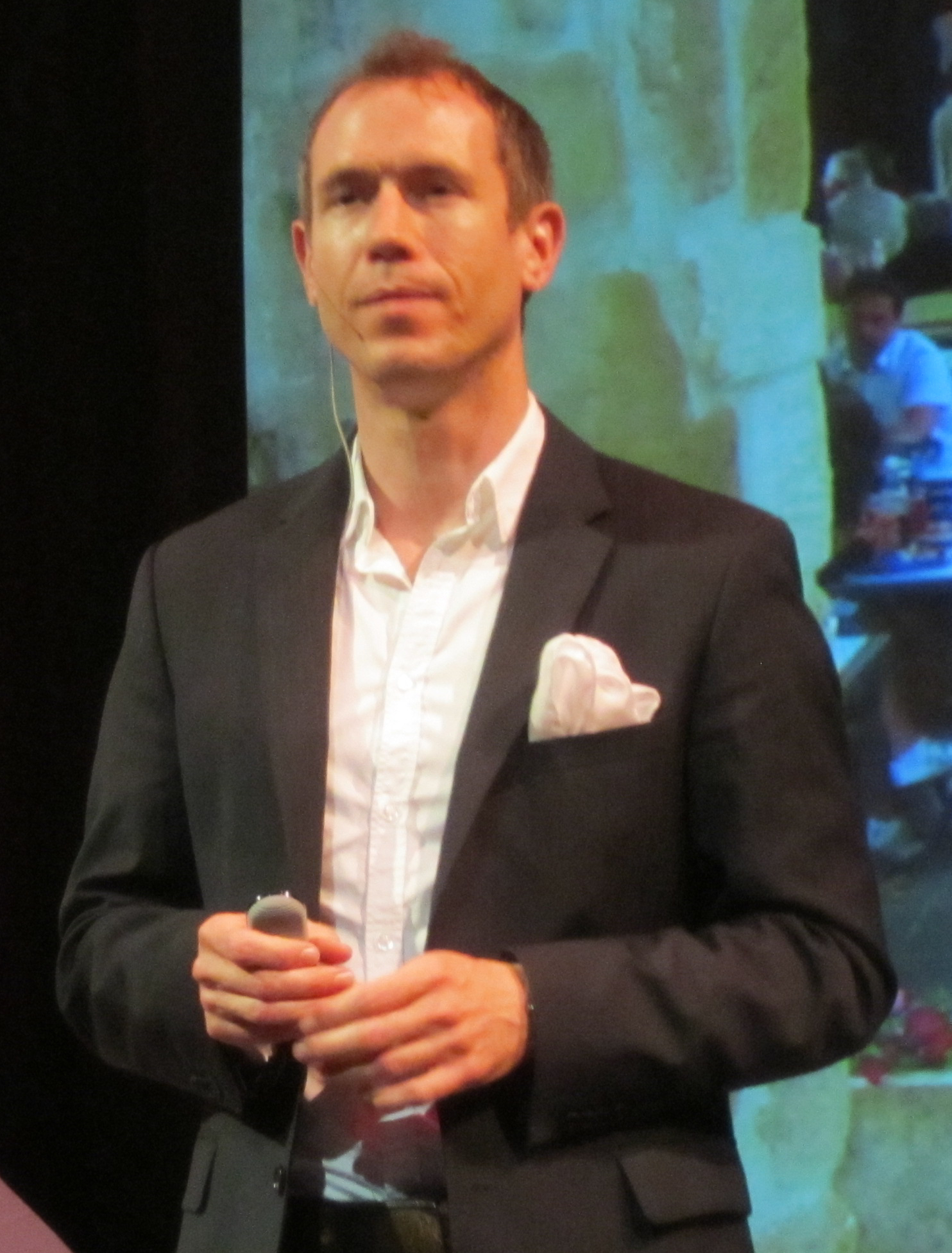 cropped